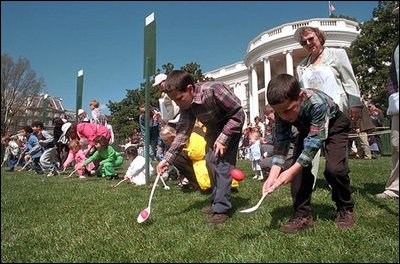 Children race to reach the finish line by rolling hard-boiled eggs across the South Lawn of the White House during the annual White House Easter Egg Roll April 1, 2002. Honoring an Easter tradition that President Rutherford B. Hayes started in 1878, President George W. Bush and Mrs. Bush opened the peoples' home to children, games and many rolling Easter eggs.